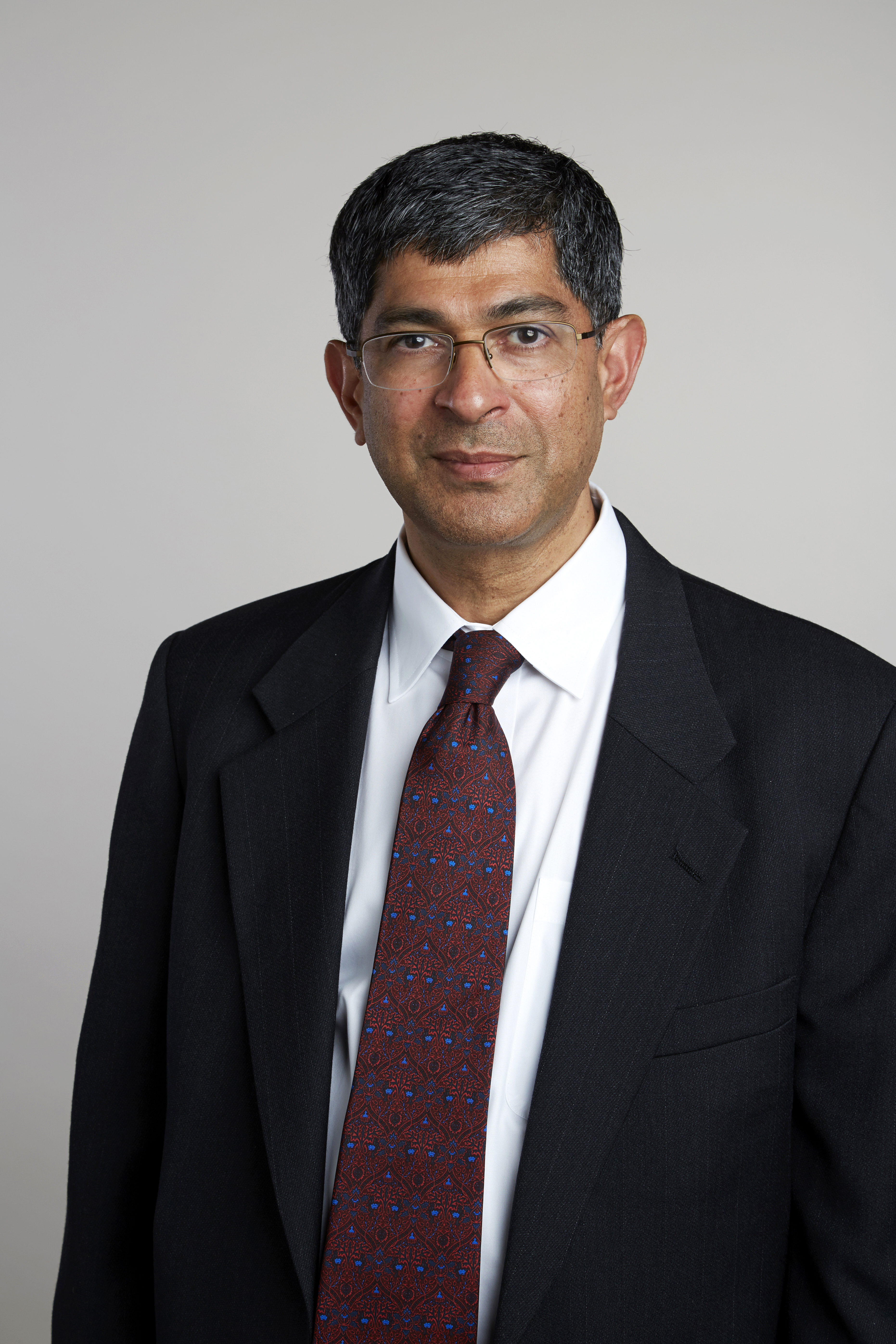 John Kuriyan has made fundamental discoveries concerning the structure and mechanism of the enzymes and molecular switches responsible for cellular signal transduction and DNA replication. Kuriyan's work on protein tyrosine kinases has lead to explanations for how the cancer drug Gleevec achieves specificity, and how the catalytic activity of the epidermal growth factor receptor is activated. Much of our current understanding of how high speed DNA polymerases achieve very high processivity also emanates from Kuriyan's laboratory. Kuriyan is a major contributor to UK Science in both academic and advisory roles. Attribution: The Royal Society